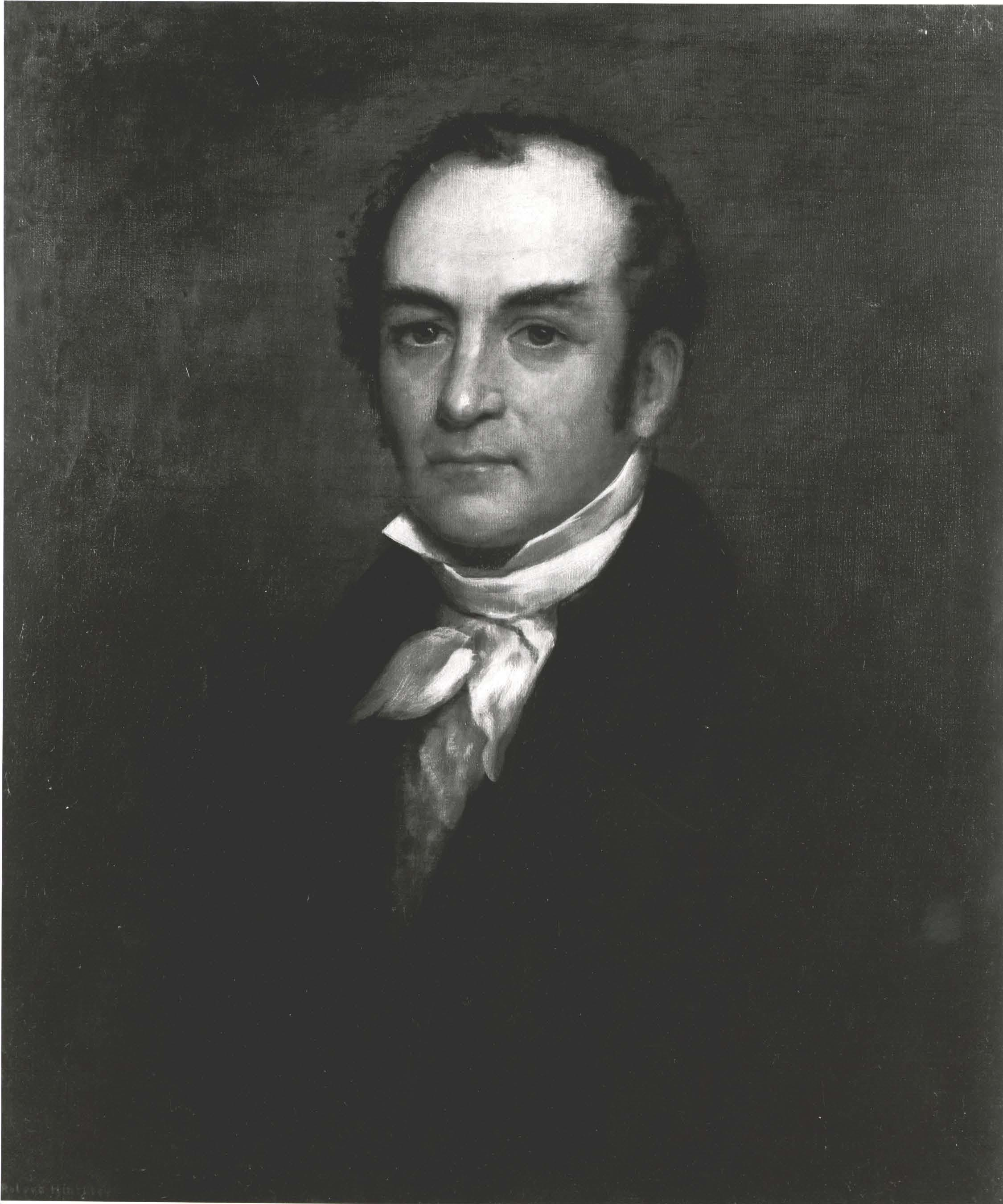 Louis McLane (May 28, 1786 – October 7, 1857), American lawyer and politician from Wilmington, in New Castle County, Delaware, and Baltimore, Maryland.